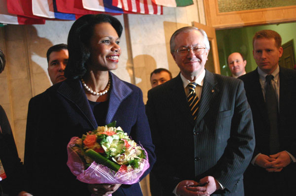 Condoleezza Rice and Borys Tarasyuk.